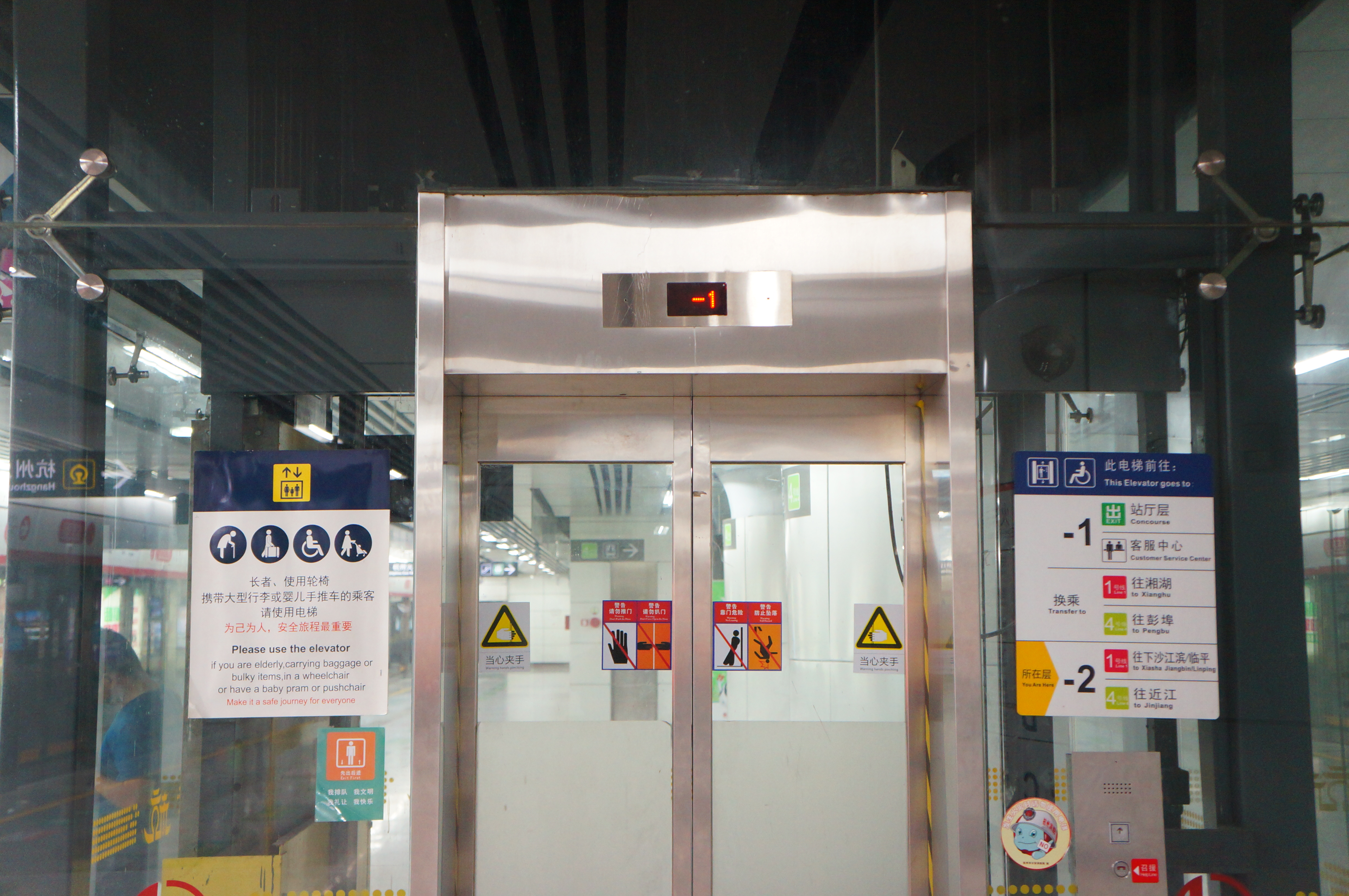 201706 Elevator on the platform of East Railway Station. It contains two significants MTR-element as the File:MTR_WCH_(49).JPG shows.